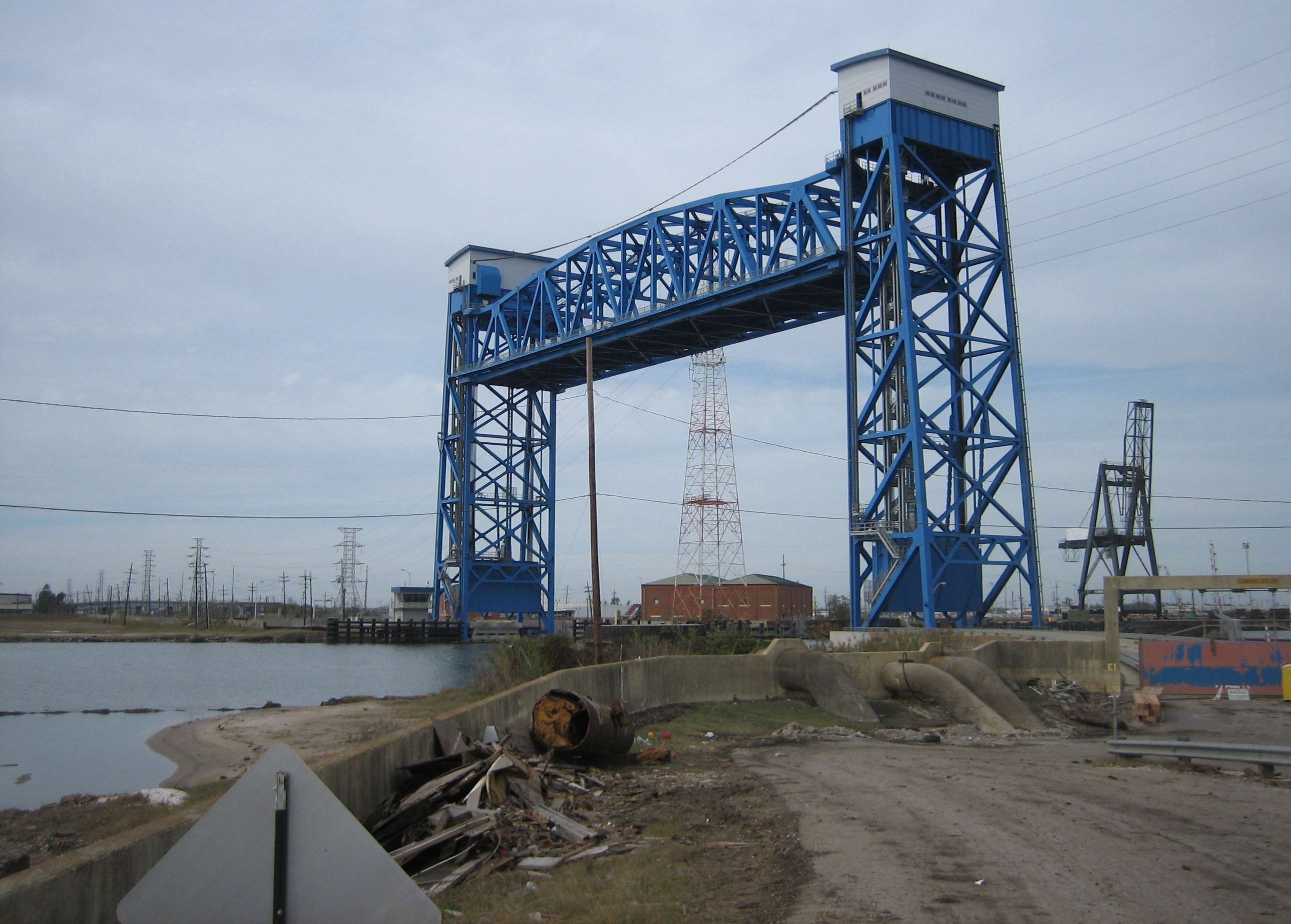 View of the Florida Avenue Bridge over the Industrial Canal, New Orleans, from the Lower 9th Ward side. Photo shows the bridge in the up position; allowing ship traffic and not land traffic. Bridge has not been open to land traffic since Hurricane Katrina. Across the canal under the bridge Sewerage & Water Board Pumping Station #19 can be seen. Part of the drainage system of New Orleans goes under the Industrial Canal with a giant syphon, continuing the old route of the Florida Canal from before the Industrial Canal was built.